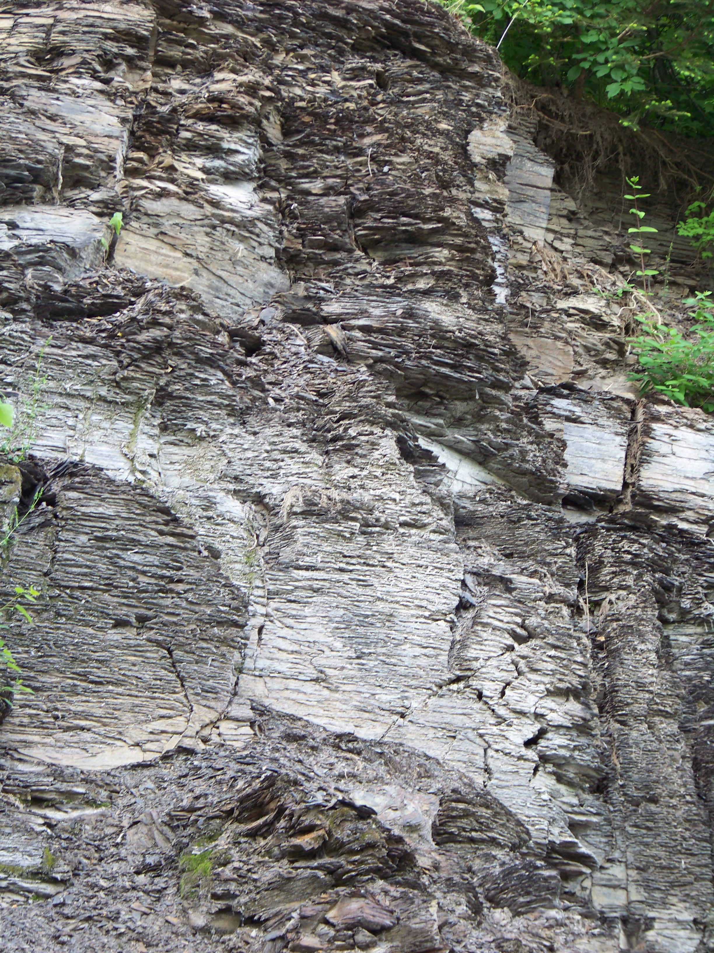 Marcellus Shale bank along Rt 174 just south of Slate Hill Road in Marcellus, NY